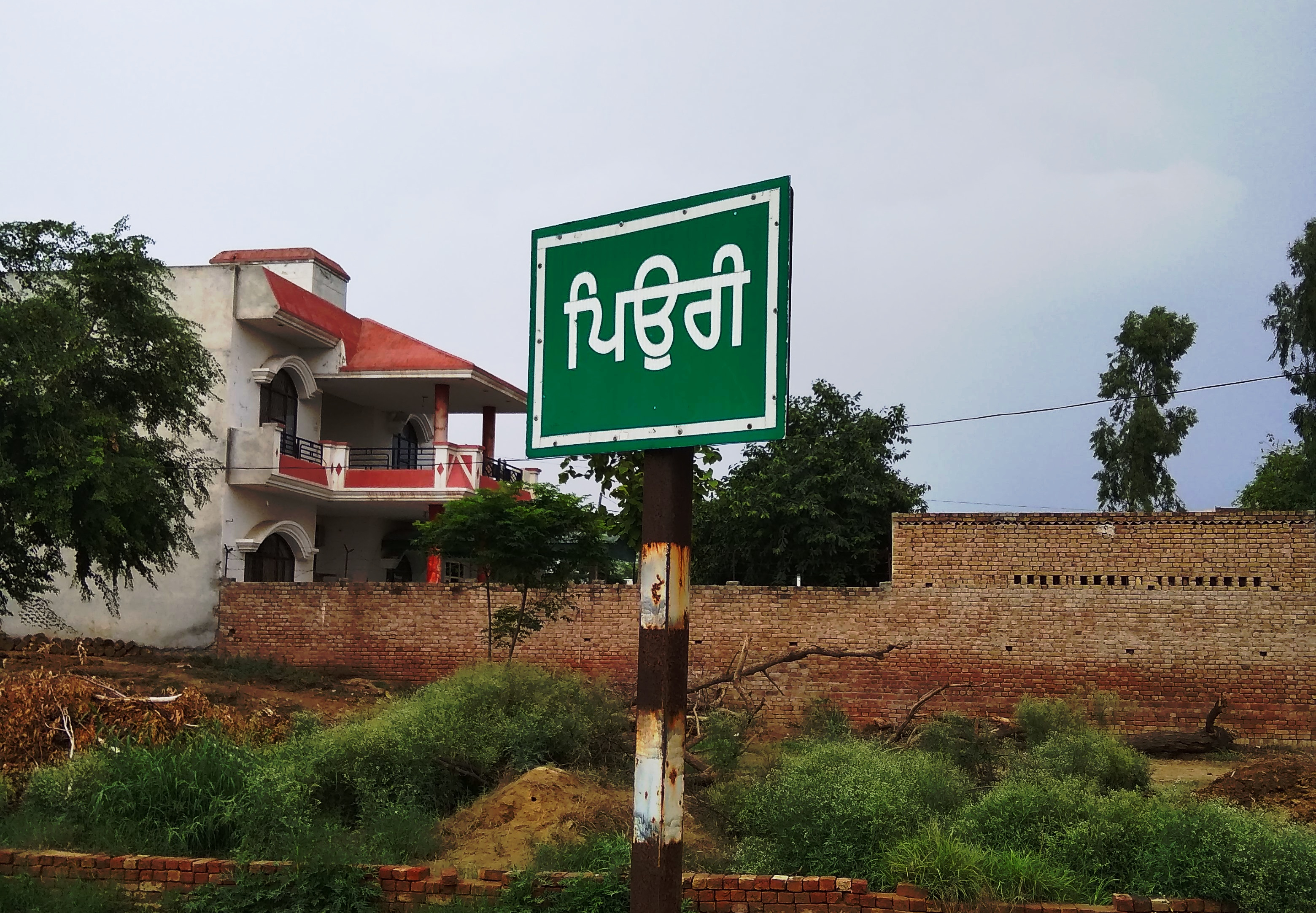 The sign board of the name of the village.